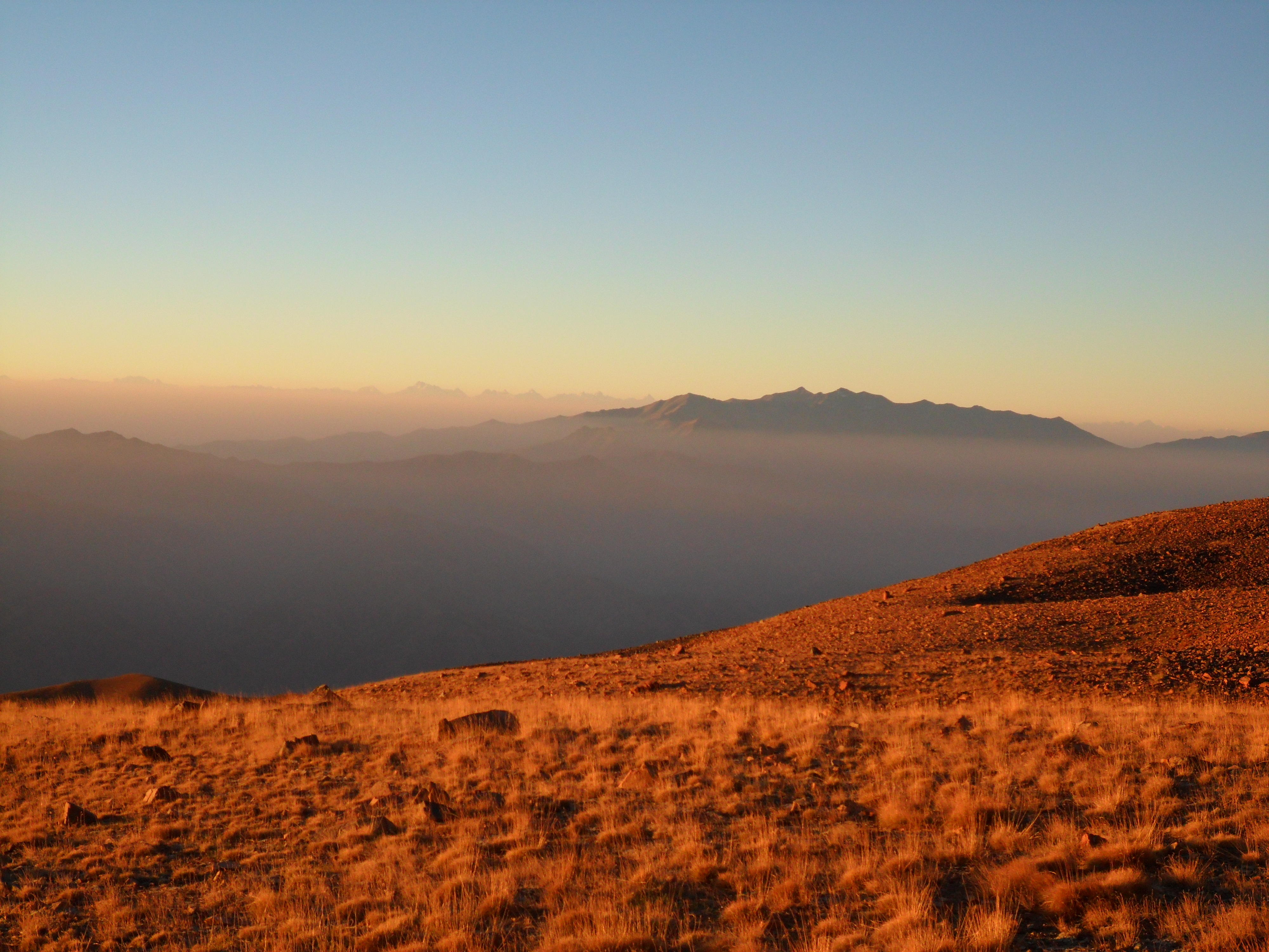 View to Kuramin ridge.